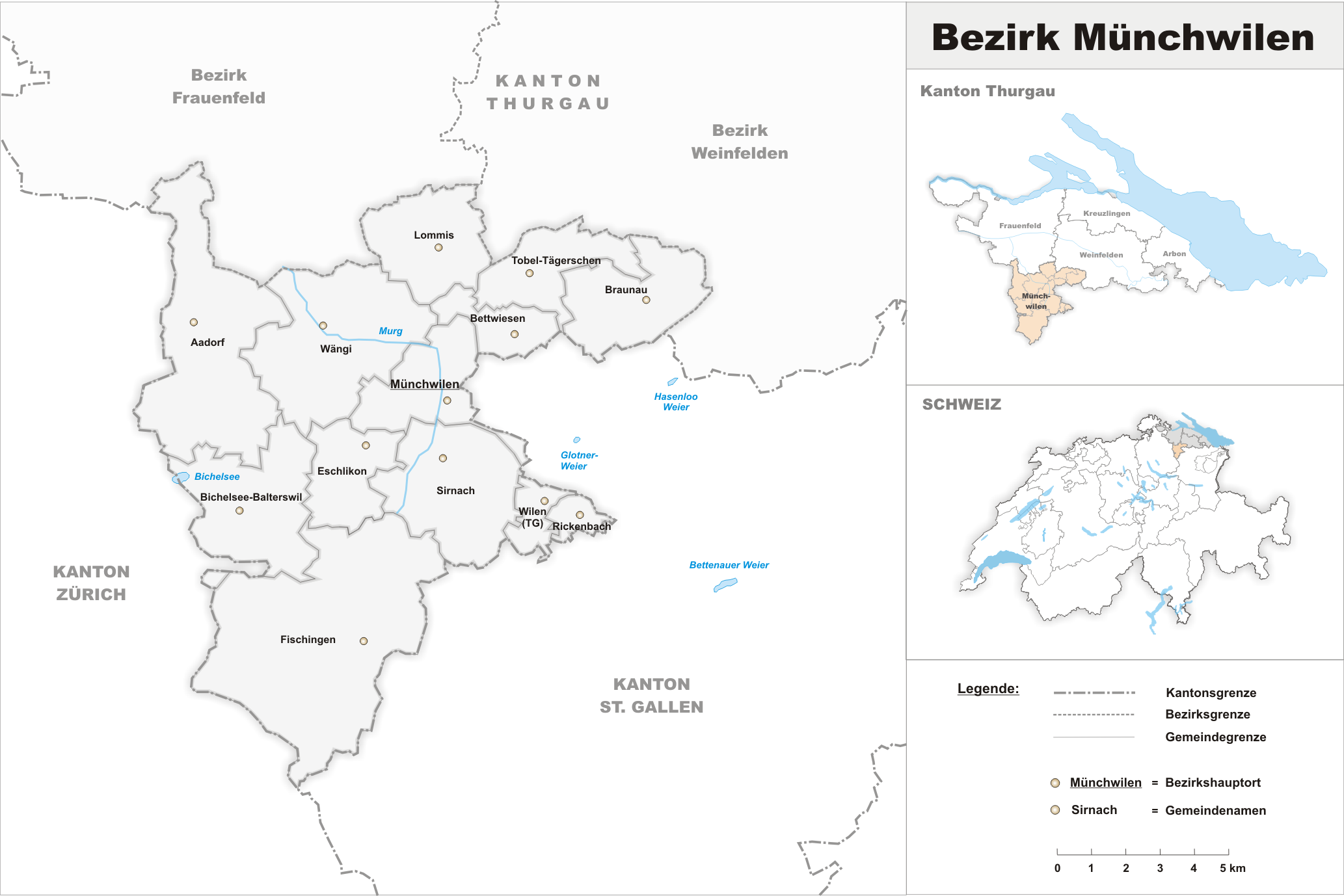 Municipalities in the district of Münchwilen